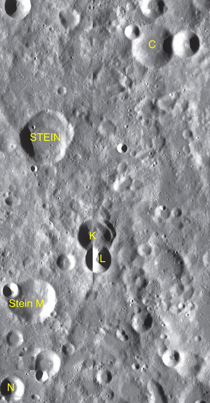 Part of the chart LAC-68 used for the presentation